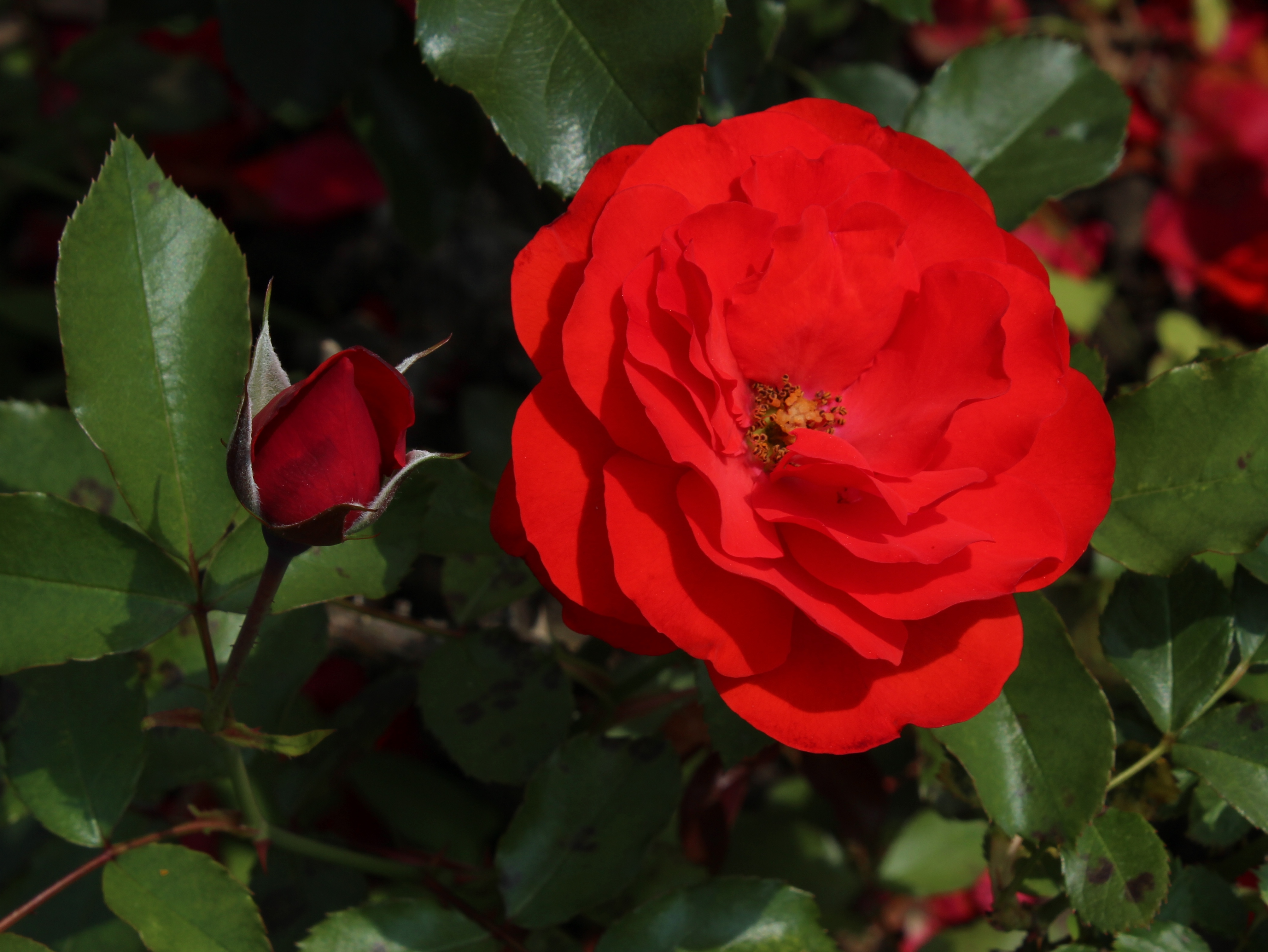 'Trumpeter' in the Volksgarten in Vienna. Identified by sign.